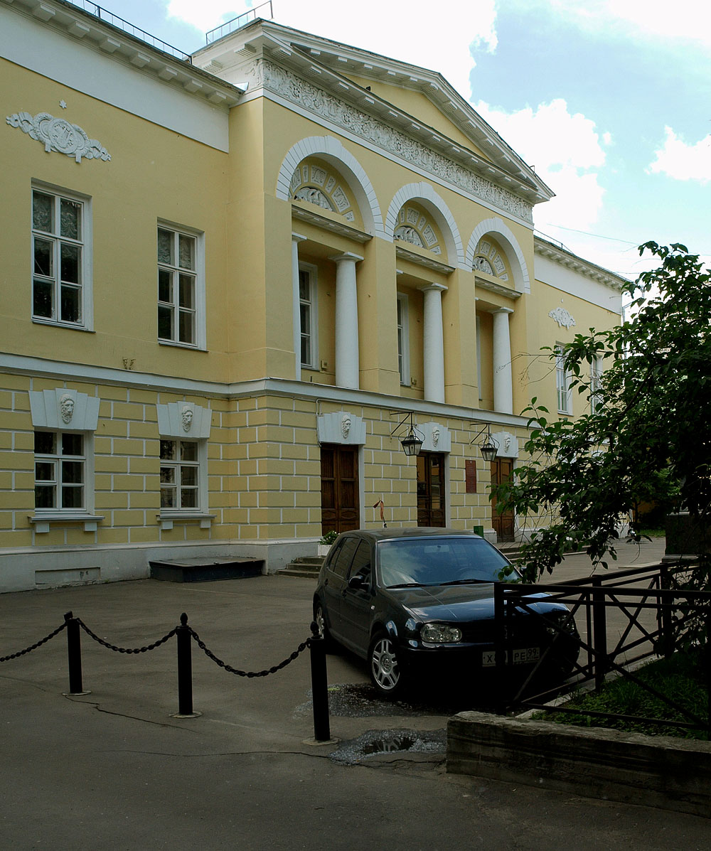 World Literature Institute, Moscow. Built in 1820s as Gagarin house by Domenico Gilardi - this is one of the few own designs by Giliardi, i.e. not shared/disputed with Afanasy Grigoriev.